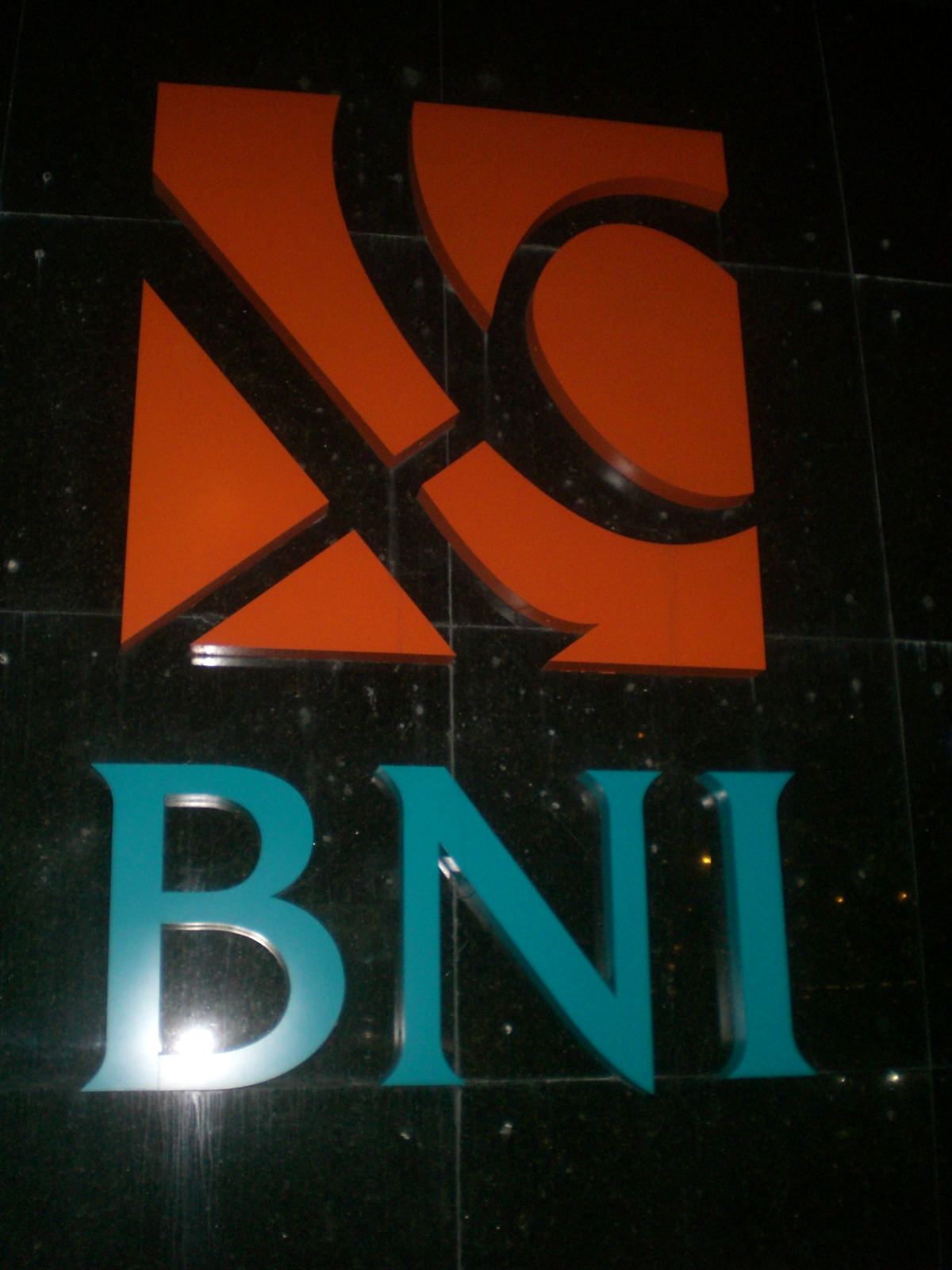 印尼國家銀行 位於香港金鐘 夏愨道16號 遠東金融中心地下